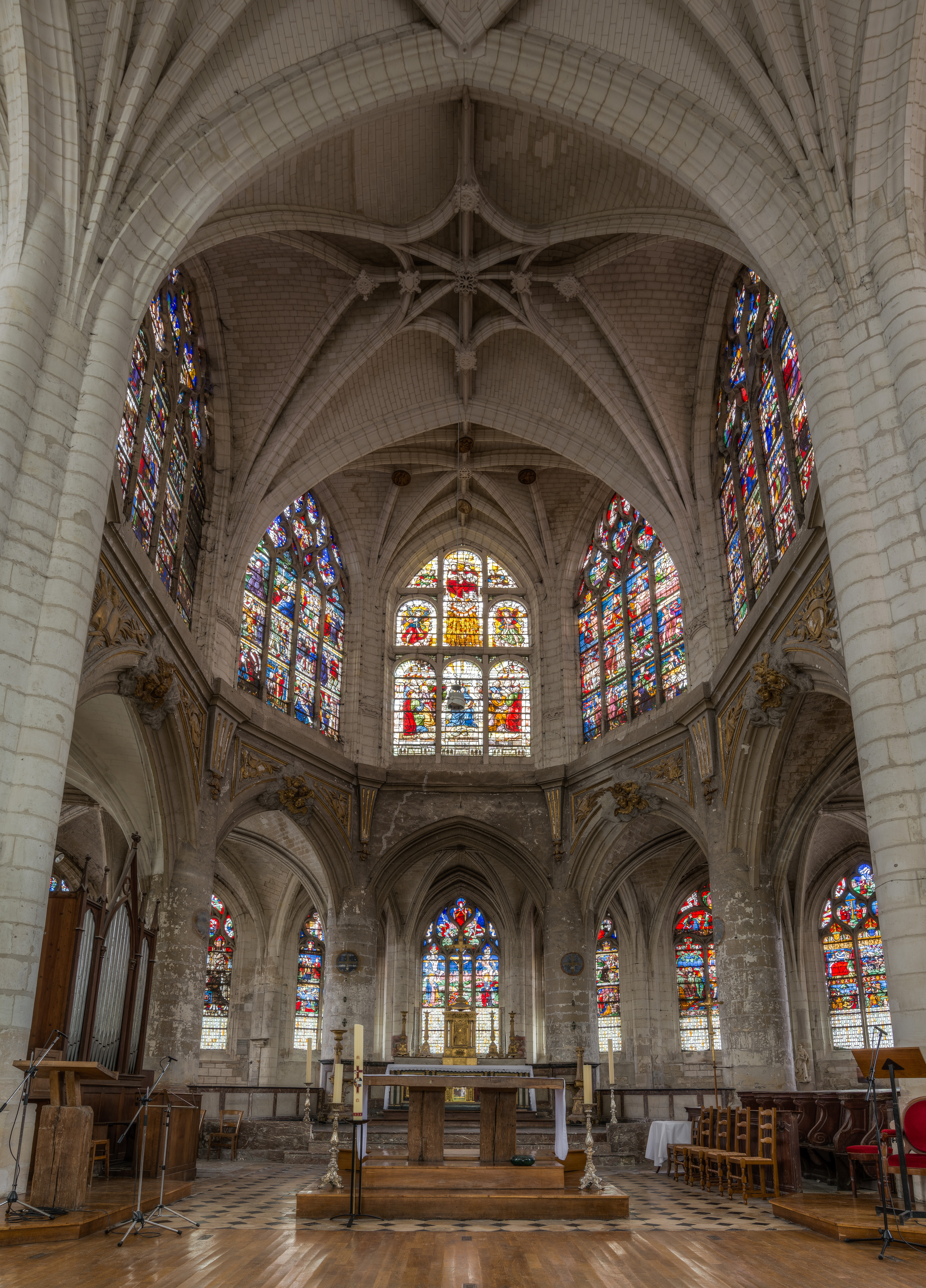 The Choir of Saint-Nizier in Troyes This is a retouched picture, which means that it has been digitally altered from its original version. Modifications: Blended 5-image HDR.